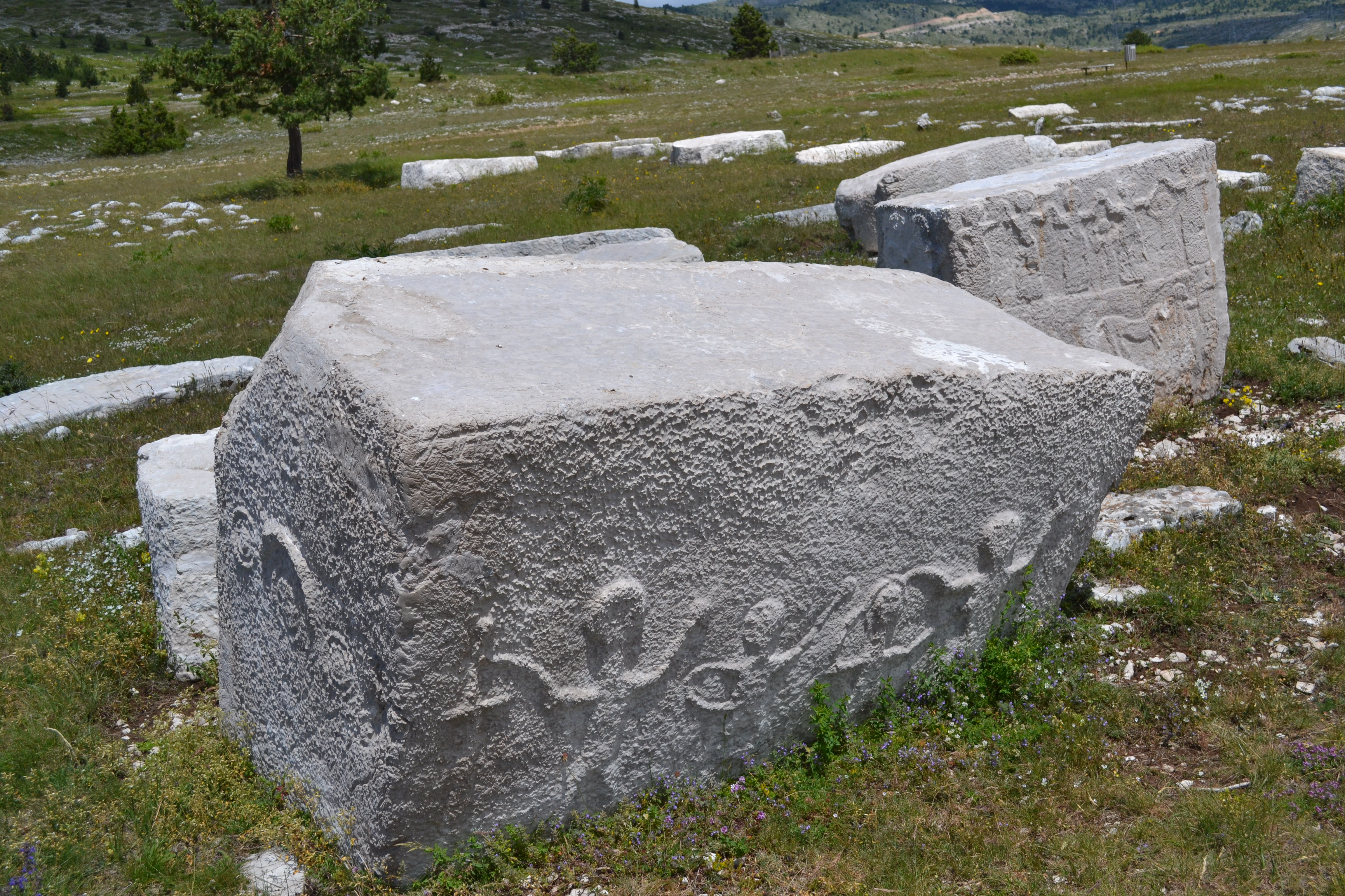 Stećci, Risovac, Municipality of Jablanica, Bosnia and Herzegovina.